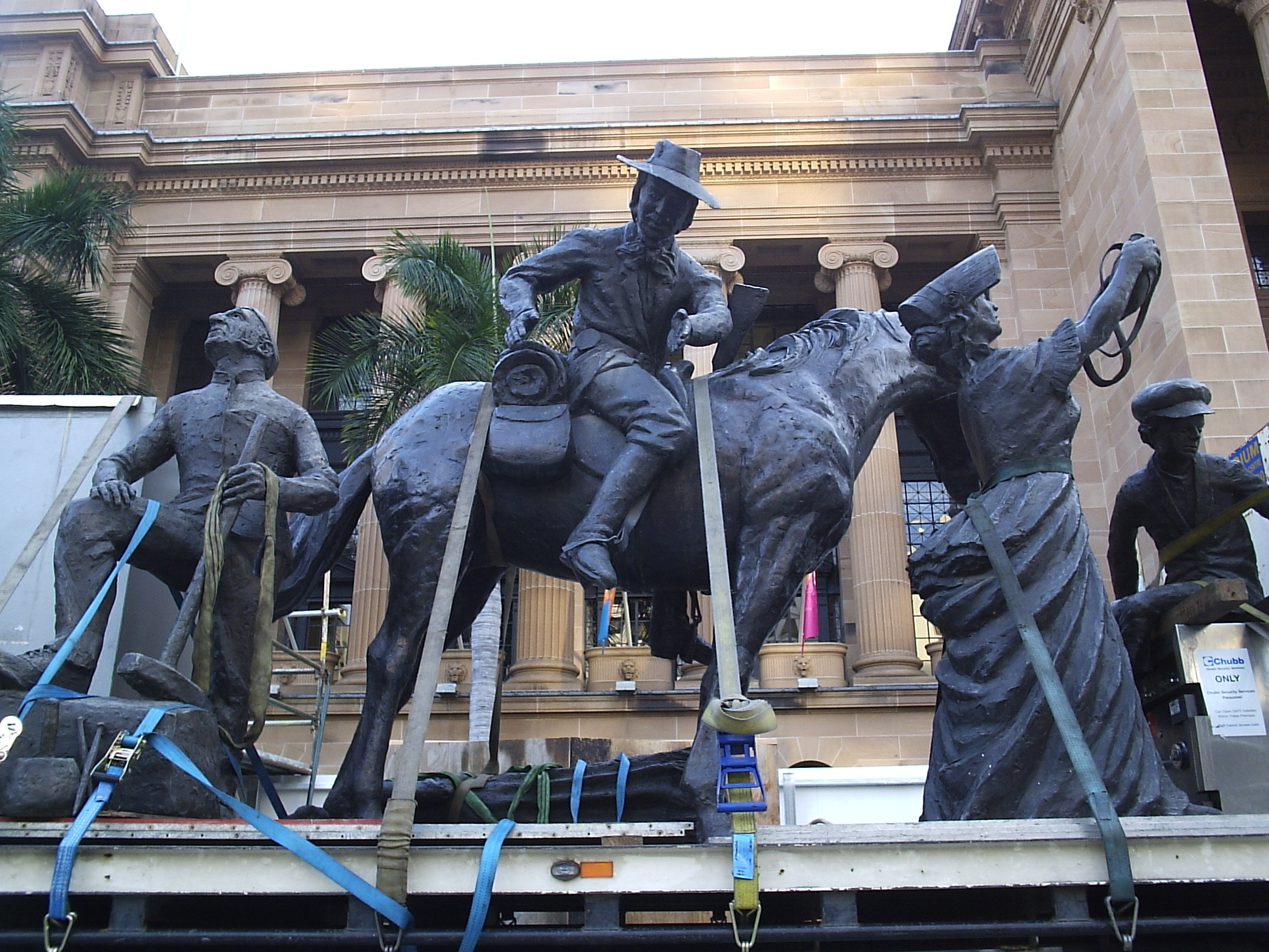 author: cathetus This image was captured by me on 14th Dec 2006